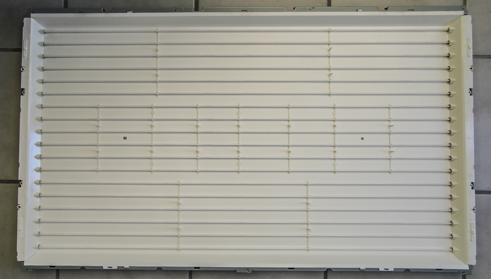 Backlight Arrangement for 42-inch LCD TV Panel using 18 CCFL